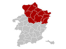 Map of Maaseik District in province of Limburg, Belgium.